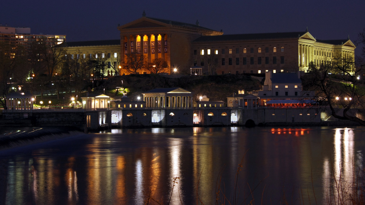 Philadelphia Museum of Art and Fairmount Water Works at night from across the Schuylkill River